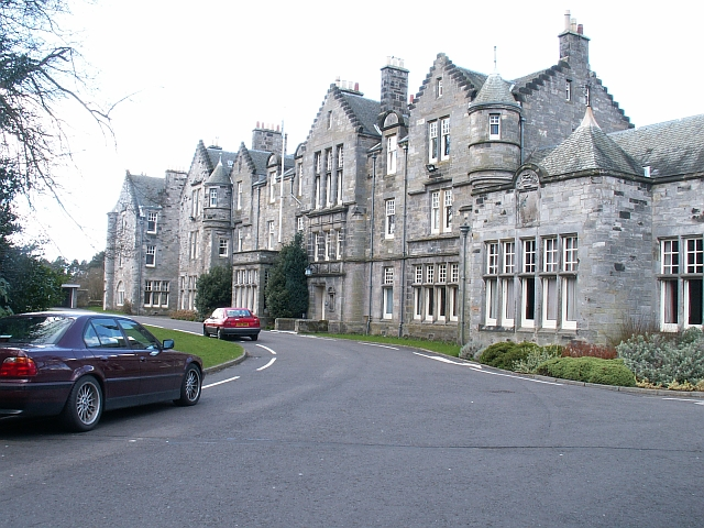 University Hall, St Andrews. One of the main buildings of the University. Just off Donaldson Gardens.